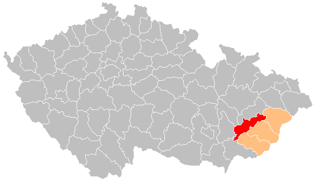 District of Kroměříž